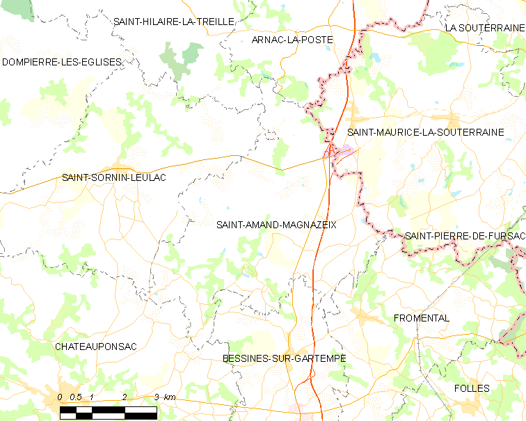 Map of French municipality Saint-Amand-Magnazeix